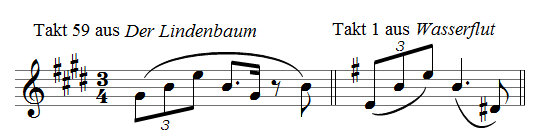 Parts from the songs "Der Lindenbaum" and "Wasserflut" from Franz Schuberts songcycle "Die Winterreise"